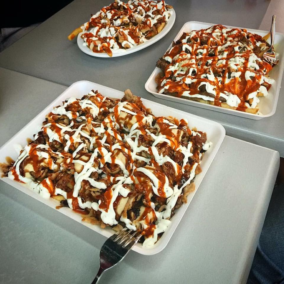 Three Halal snack packs on Styrofoam plates. HSPs bought at the King Kebab House in Campbelltown, New South Wales, Australia. These HSPs were given a rating of 10/10. King Kebab House is considered by many to be the Mecca of HSPs.